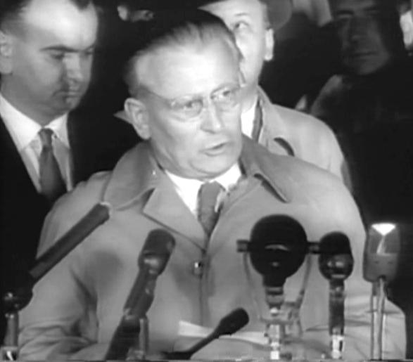 Československý prezident Antonín Novotný během návštěvy New Yorku (datum: 19. září 1960) pronáší projev na letišti. Mr. K. And Castro. Top Reds And Allies Get Chill Greeting, 1960/09/19 (1960) Cuba's Fidel Castro arrives at Idylwild in NY for UN meeting, surrounded by security guards, speaks at airport in English; Novotny of Czech and Gomulka of Poland, speaks in Polish, Khrushchev arrived on boat on East River, Pier 73